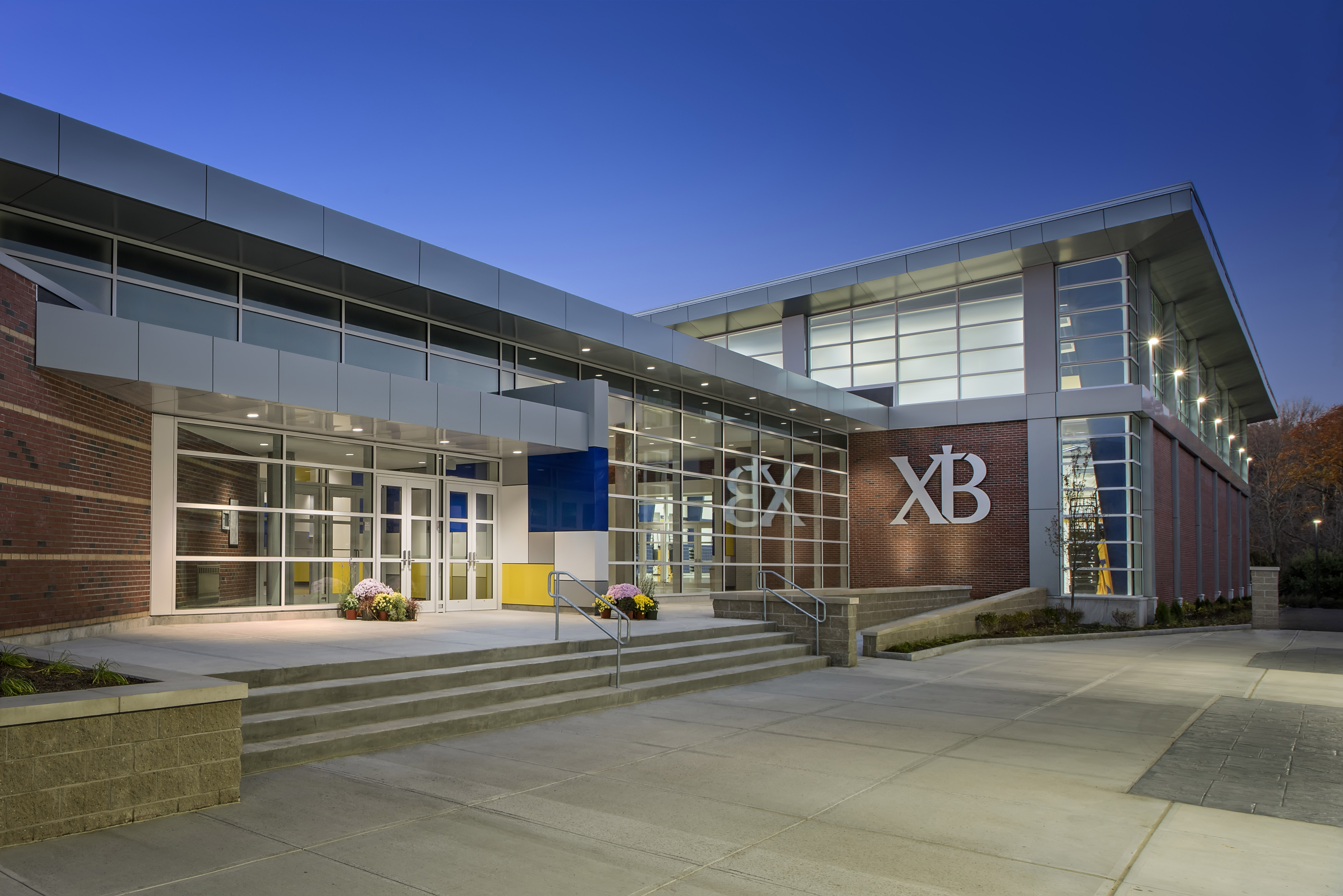 Scholastic and Wellness Center at Xaverian Brothers High School